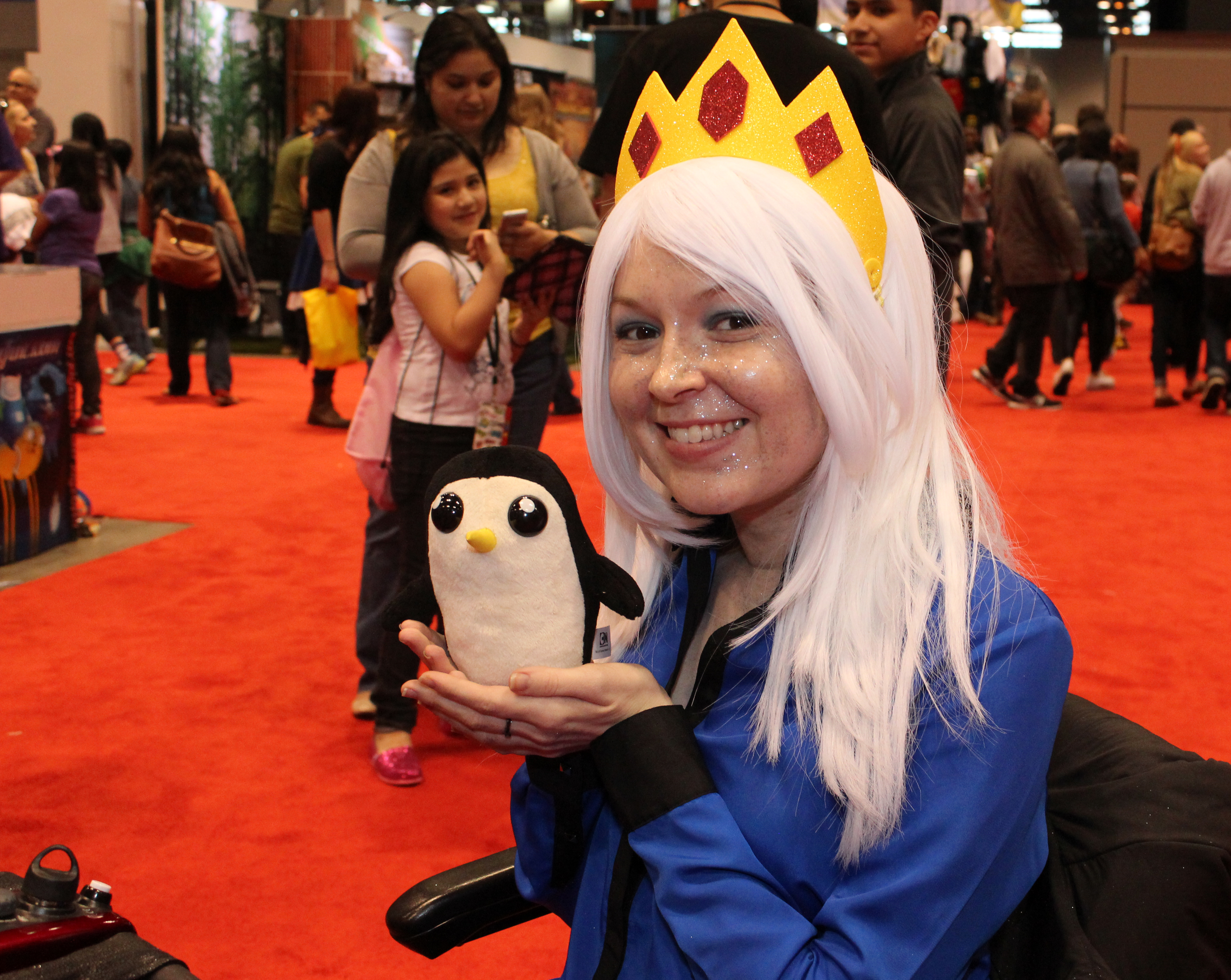 Cosplay at the 2013 Chicago Comic & Entertainment Expo (C2E2).